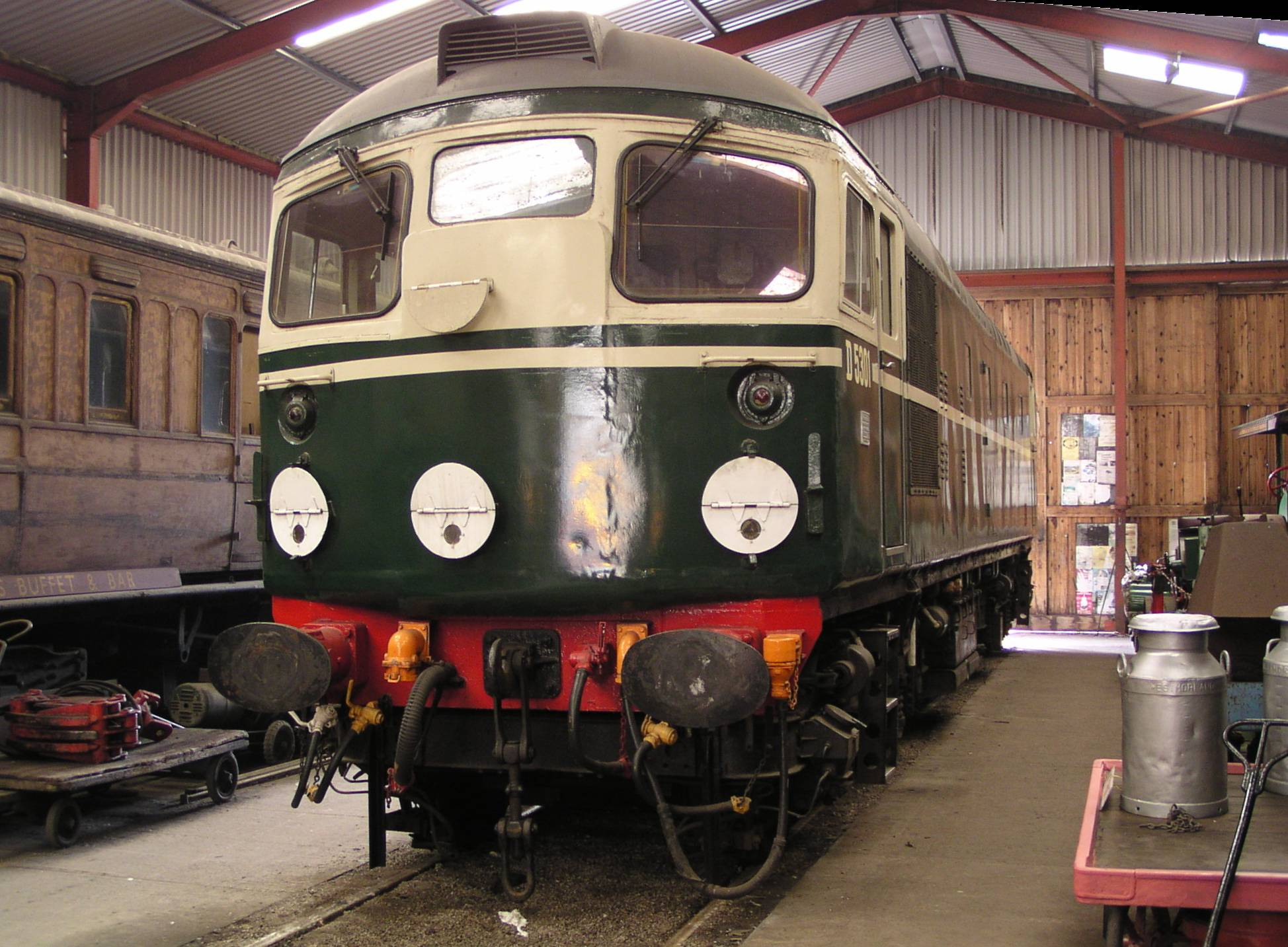 British Rail Class 26, no. D5301 inside the shed on the Lakeside & Haverthwaite Railway on 31st March 2005. This was one of the final locomotives in traffic, being withdrawn in late 1993.